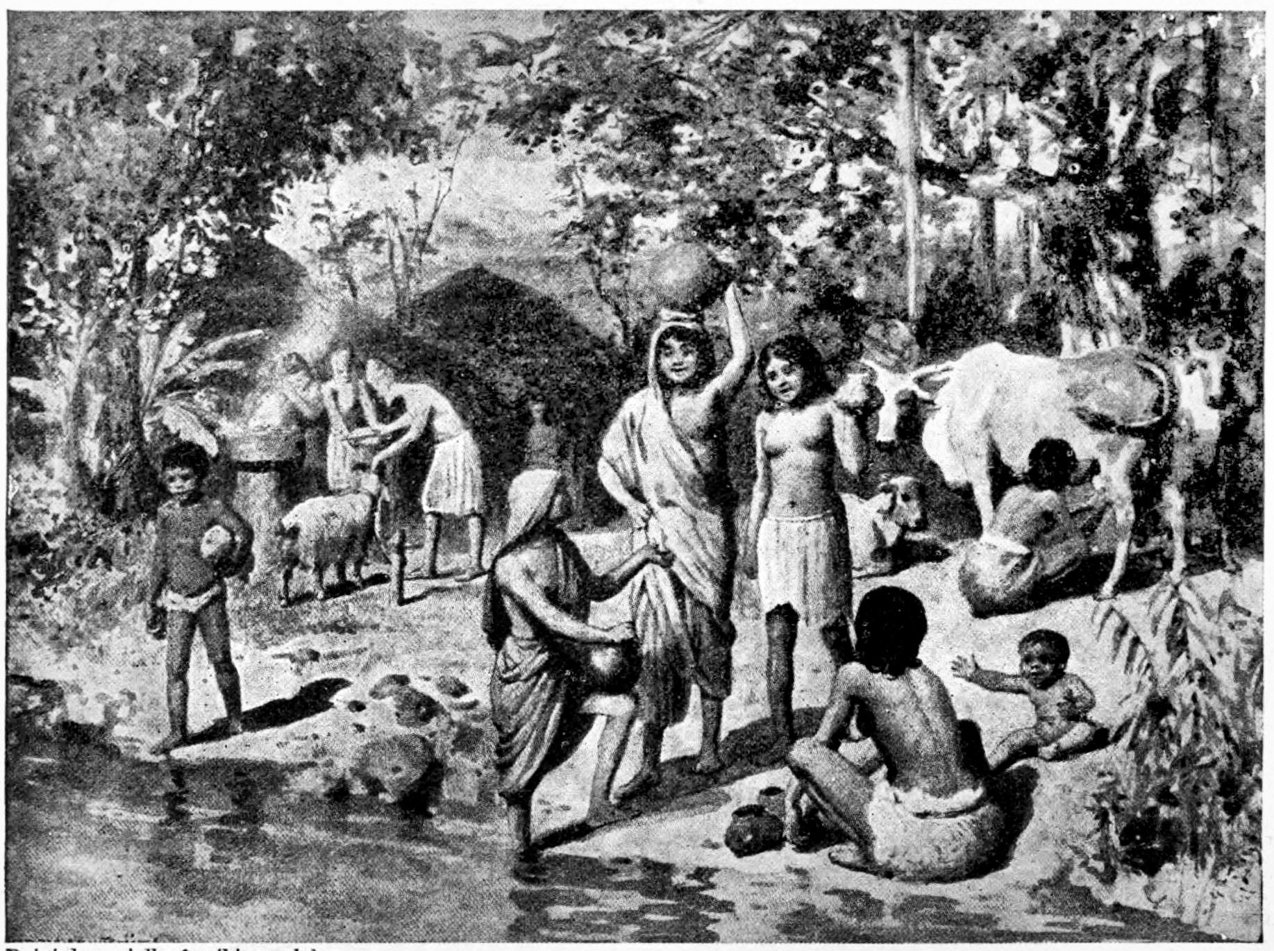 Hutchinson's story of the nations, containing the Egyptians, the Chinese, India, the Babylonian nation, the Hittites, the Assyrians, the Phoenicians and the Carthaginians, the Phrygians, the Lydians, and other nations of Asia Minor.